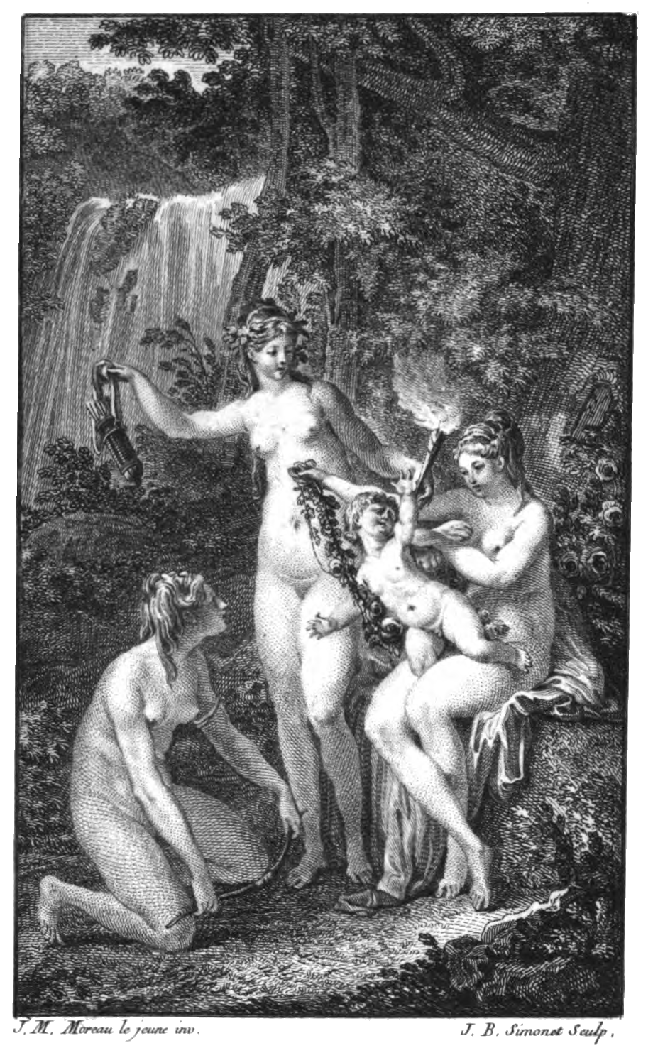 Jean Baptiste Simone after Jean Michel Moreau Le Jeune - Les Grâces vengées